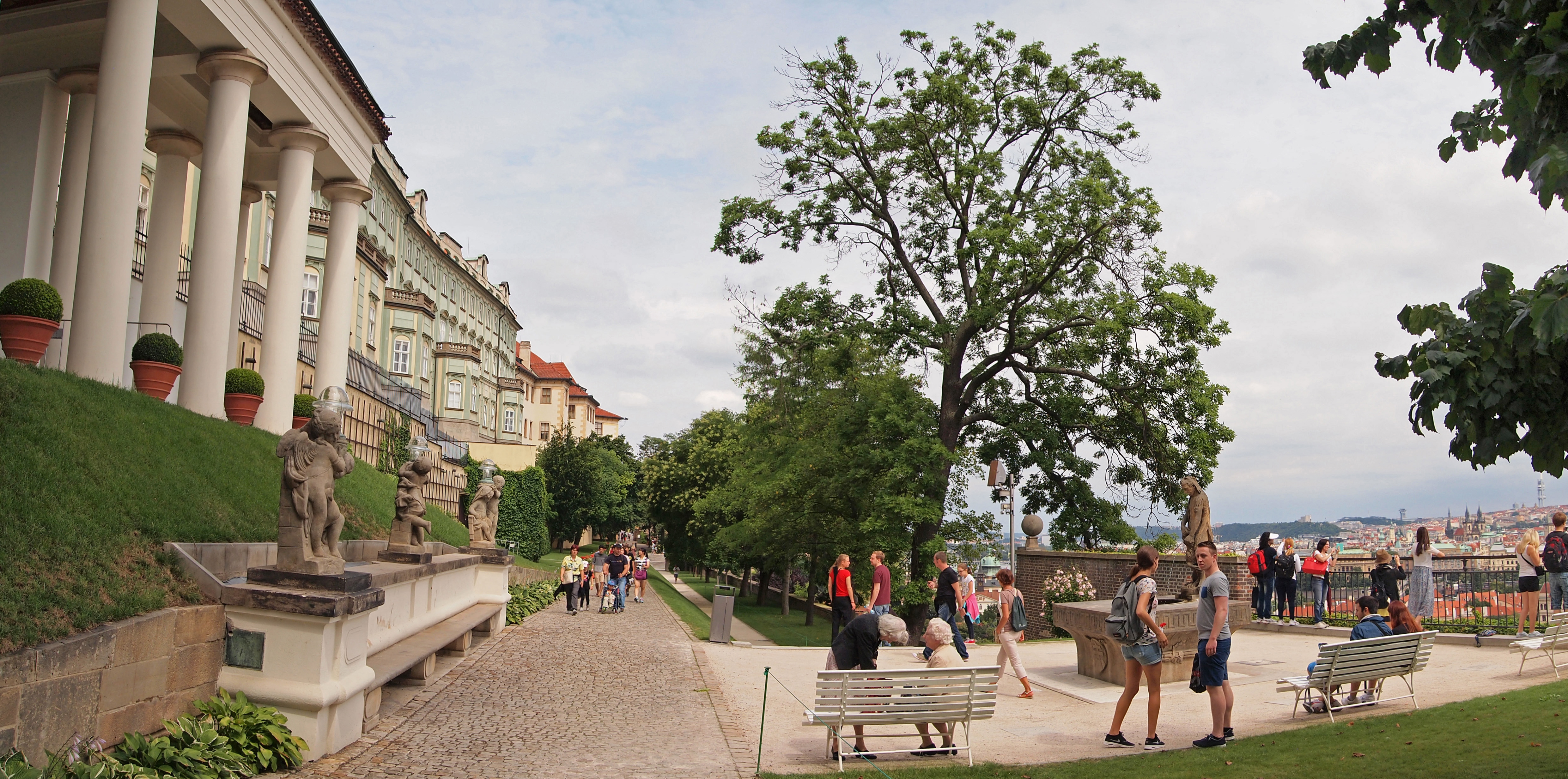 View on the Prague Castle. This photograph was taken with an Olympus E-PL1